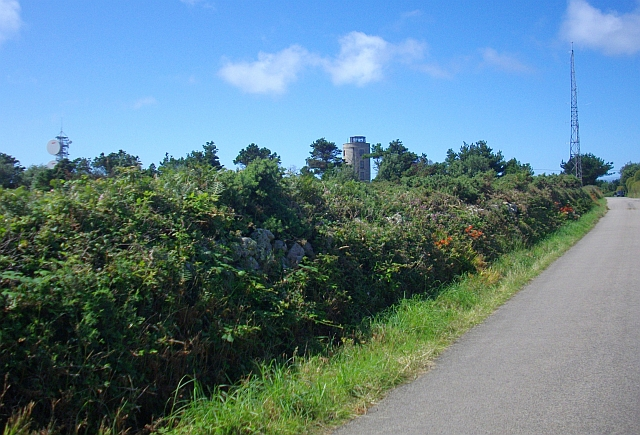 Towers of Telegraph, St. Mary's Looking from Pungies Lane towards three towers close together in the hamlet known as Telegraph. The granite round tower in the centre was built on the highest point of the island as a gun and semaphore tower soon after 1805 and later adapted as a signal station. In 1898 Marconi received radio signals here from Portcurno 30 miles away. A more modern coastguard transmitter mast is on the right and an inter island microwave telecoms link can be seen on the left.